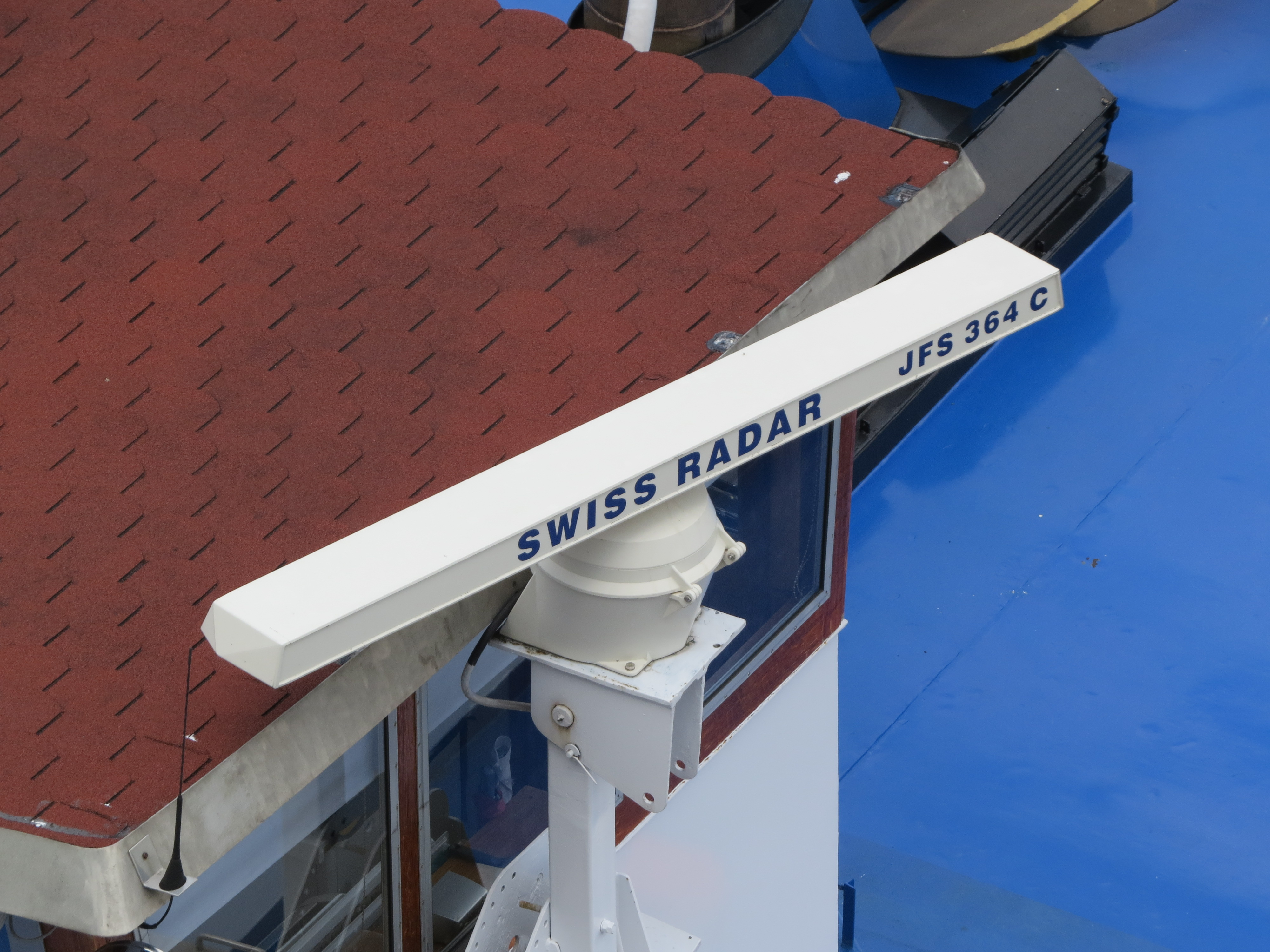 Liner radar Swiss Radar JFS 364 C from ship Kelheim at Kraftwerk Melk, Austria